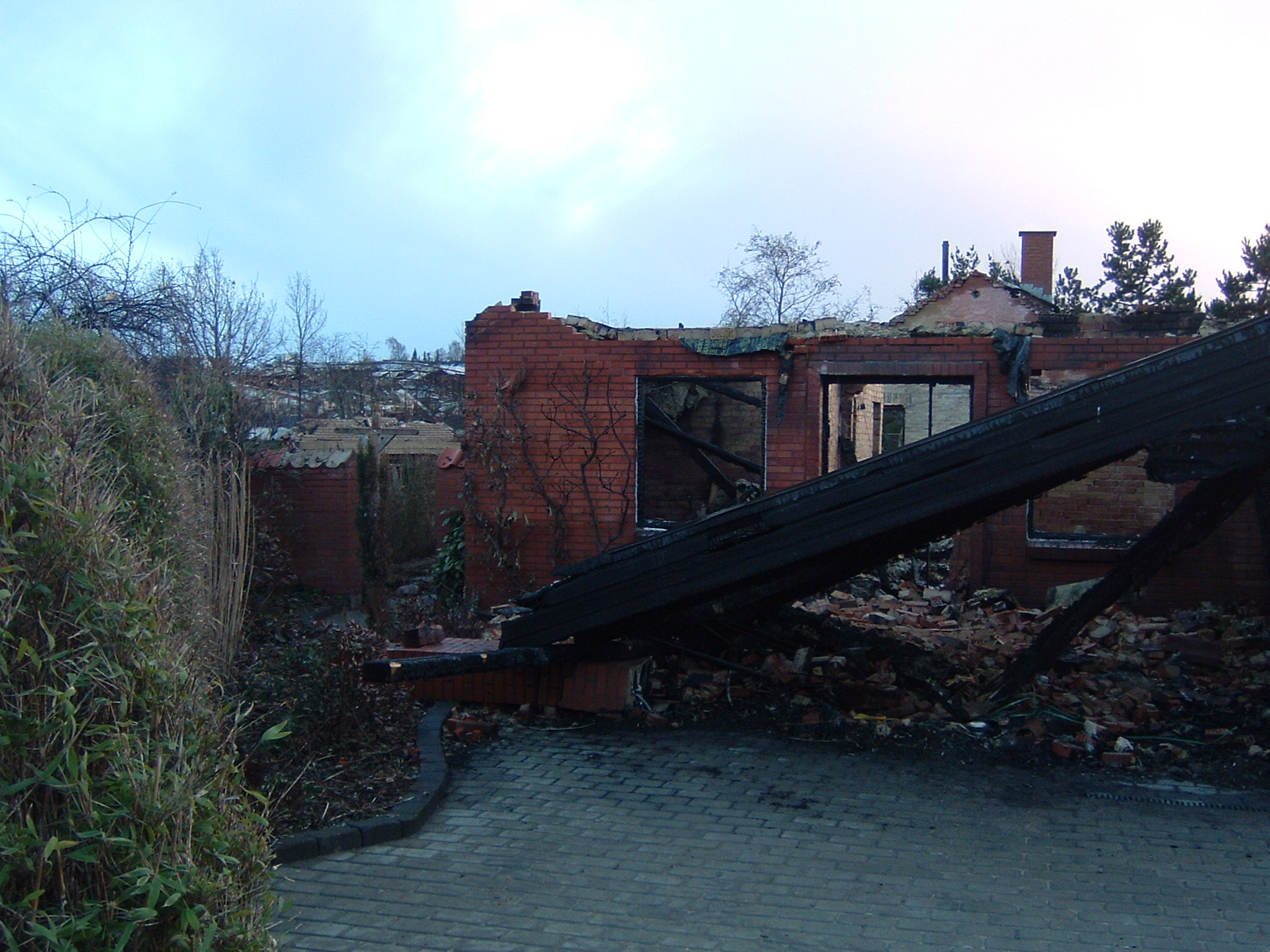 House burnt down in the fireworks accident in Seest by Kolding, Denmark. Some of the fireworks factory is visible in the background.